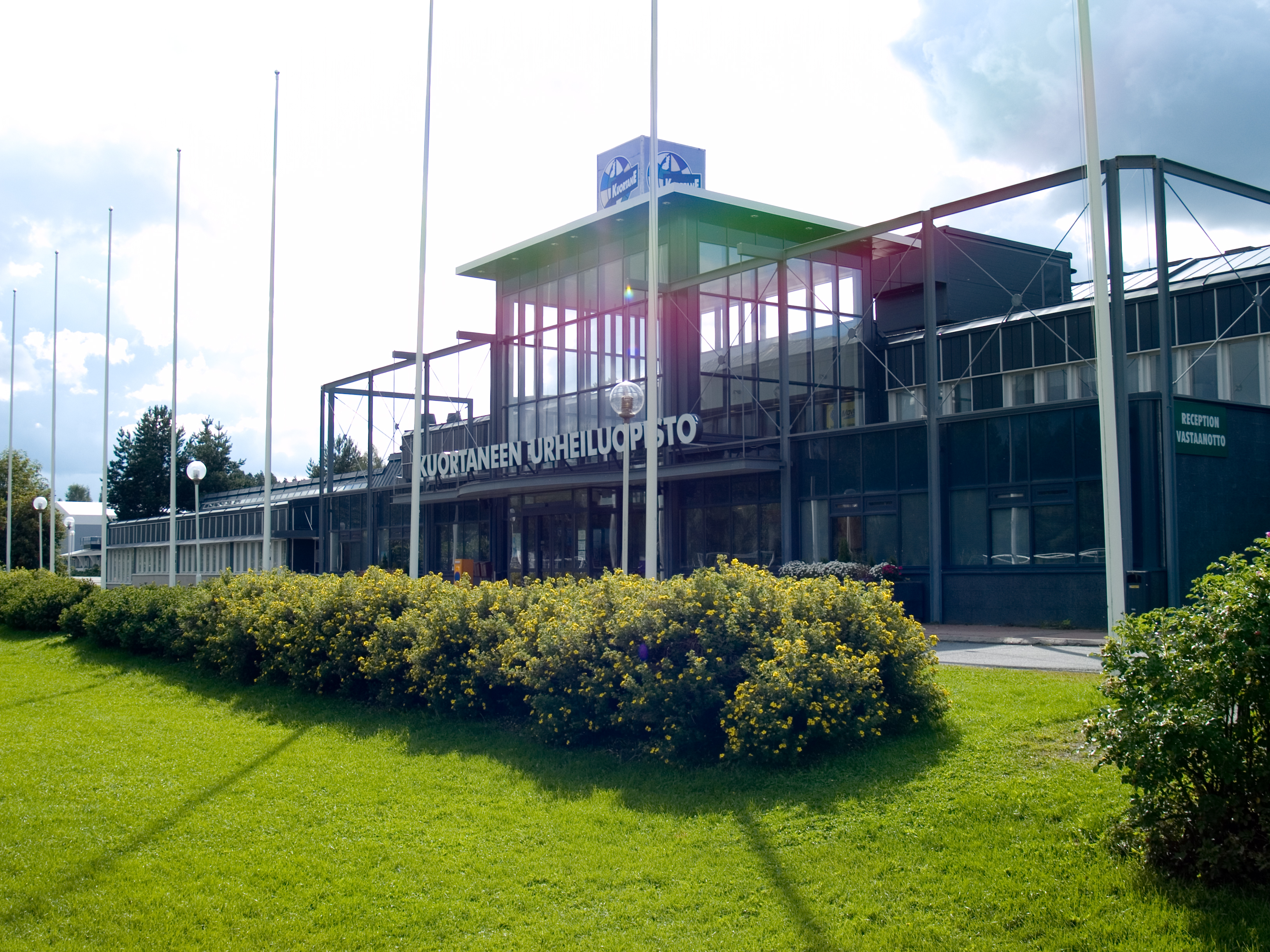 Kuortane Sports Resort (Kuortaneen Urheiluopisto), August 2012.